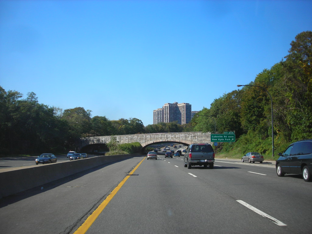 Grand Central Parkway - New York